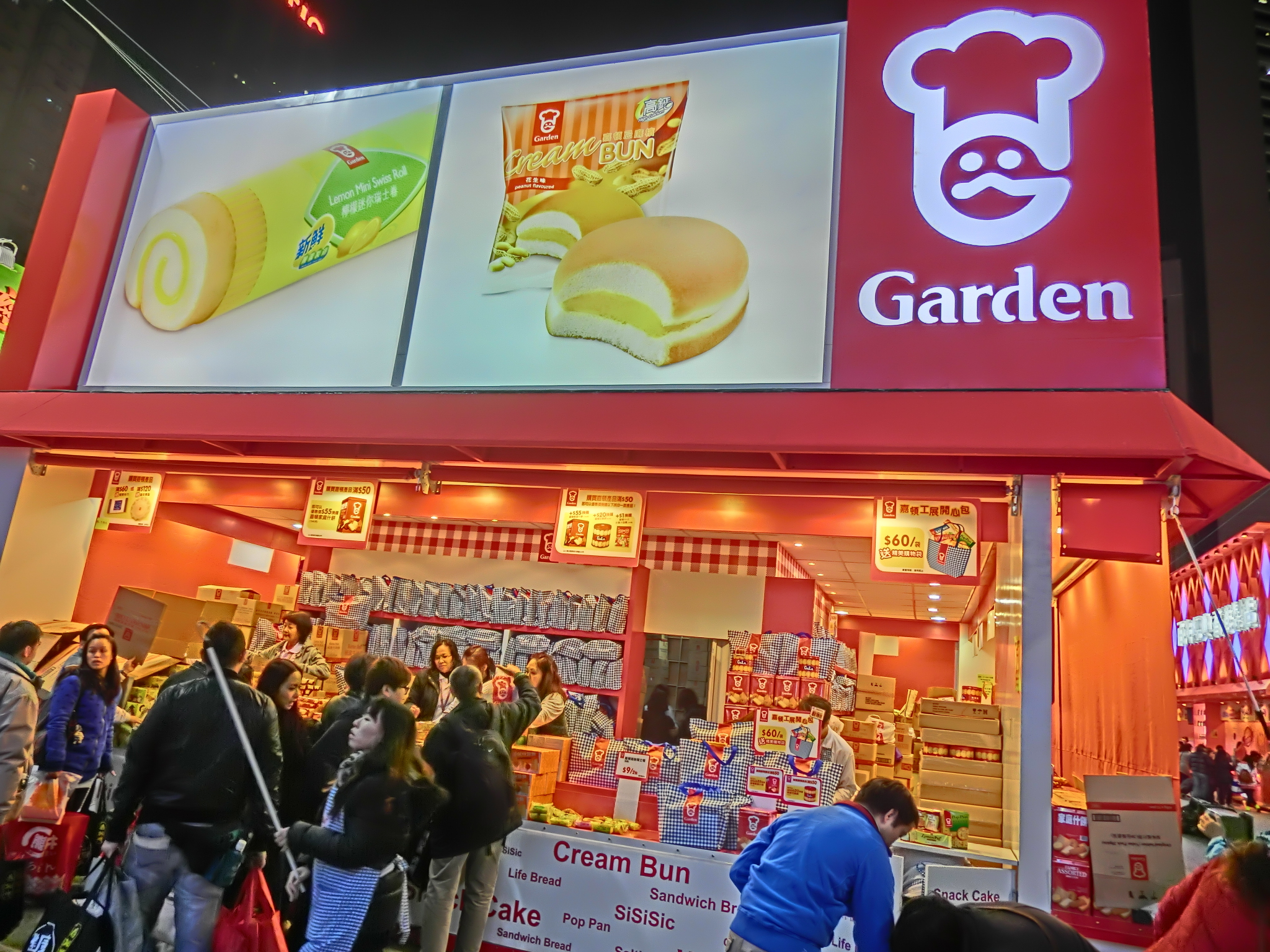 The 48th Hong Kong Brands and Products Expo, 工展會, Victoria Park, Causeway Bay, Hong Kong